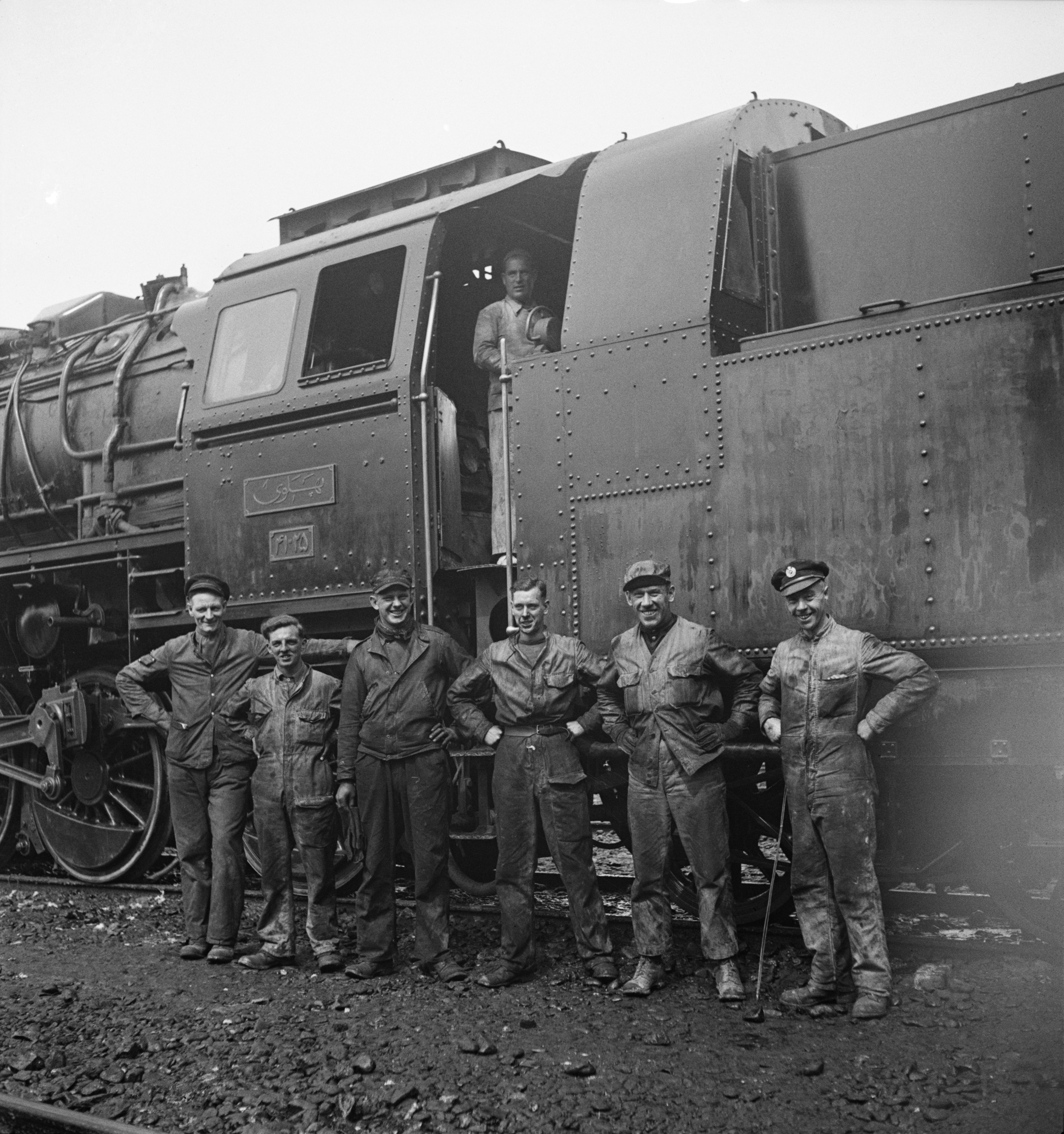 Following the Anglo-Soviet invasion of Iran, American and British railroad crews who are taking supplies for Russia. Somewhere in Iran